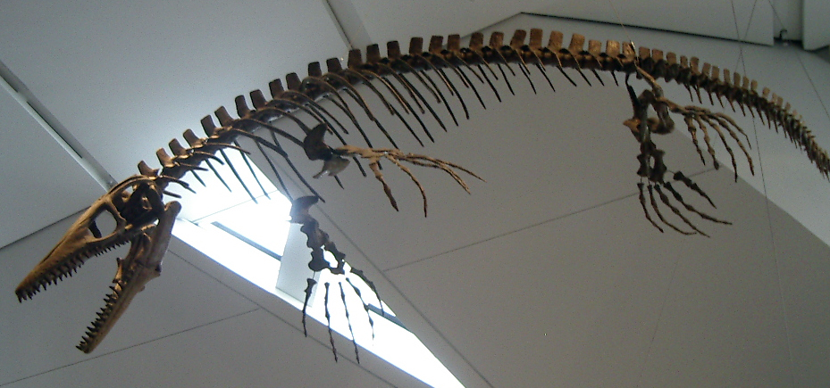 Platecarpus coryphaeus fossil at ROM